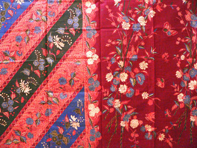 Batik from Lasem, a northern coastal town in Central Java. Batik Lasem is is well known for its typical bright red color, shown here, called abang getih pithik (chicken blood red).